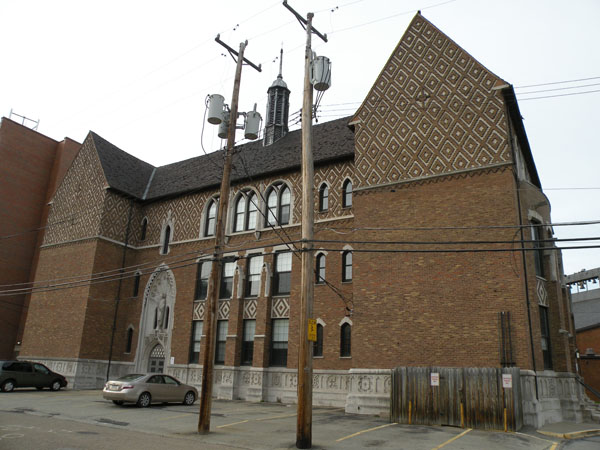 Picture of St. Colman's School located at Hunter Street and Stewart Avenue in Turtle Creek, Pennsylvania, on May 16, 2010. Built in 1928, architects Link, Weber & Bowers, the school is on the List of Pittsburgh Landmarks recognized by the Pittsburgh History and Landmarks Foundation (PHLF).